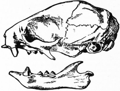 Skull of Unau or Two-toed Sloth (Choloepus didactylus).